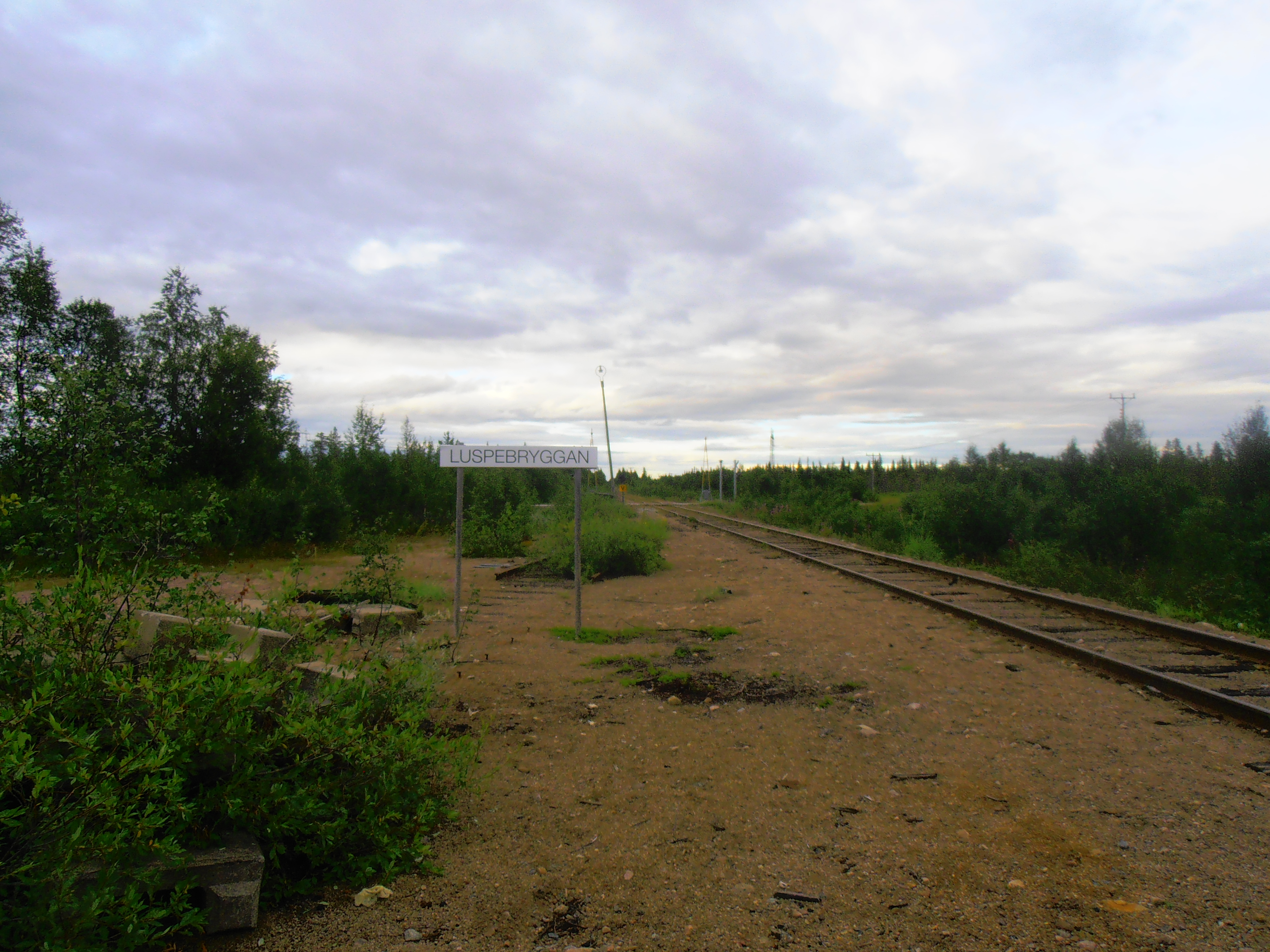 Luspebryggan, Gällivare